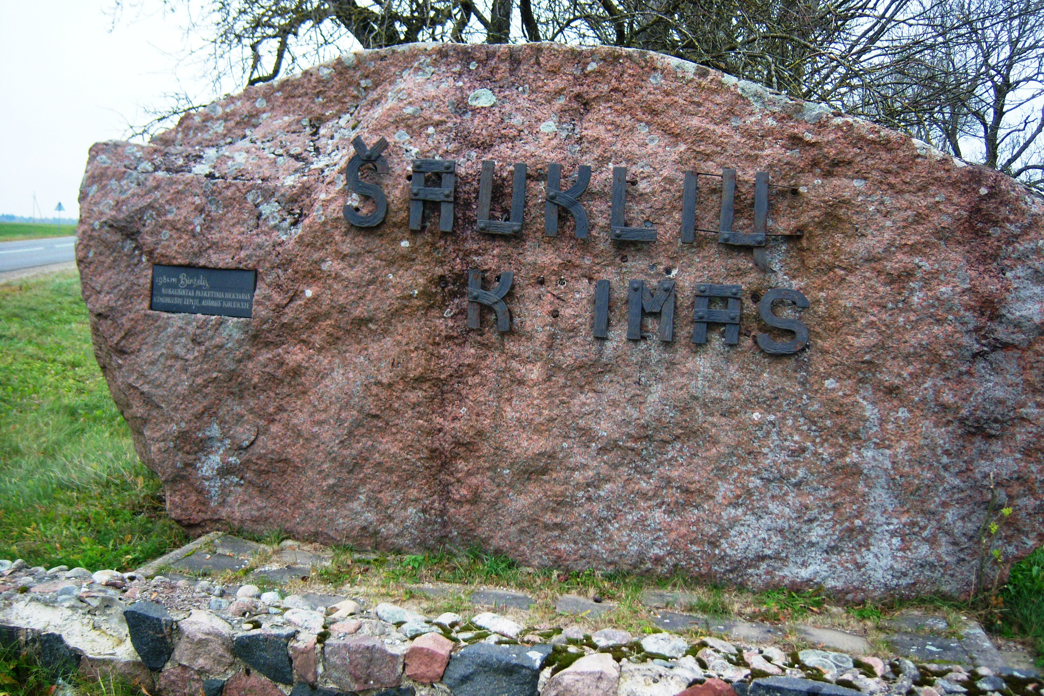 Šaukliai, commemorative stone, Skuodas District. Lithuania